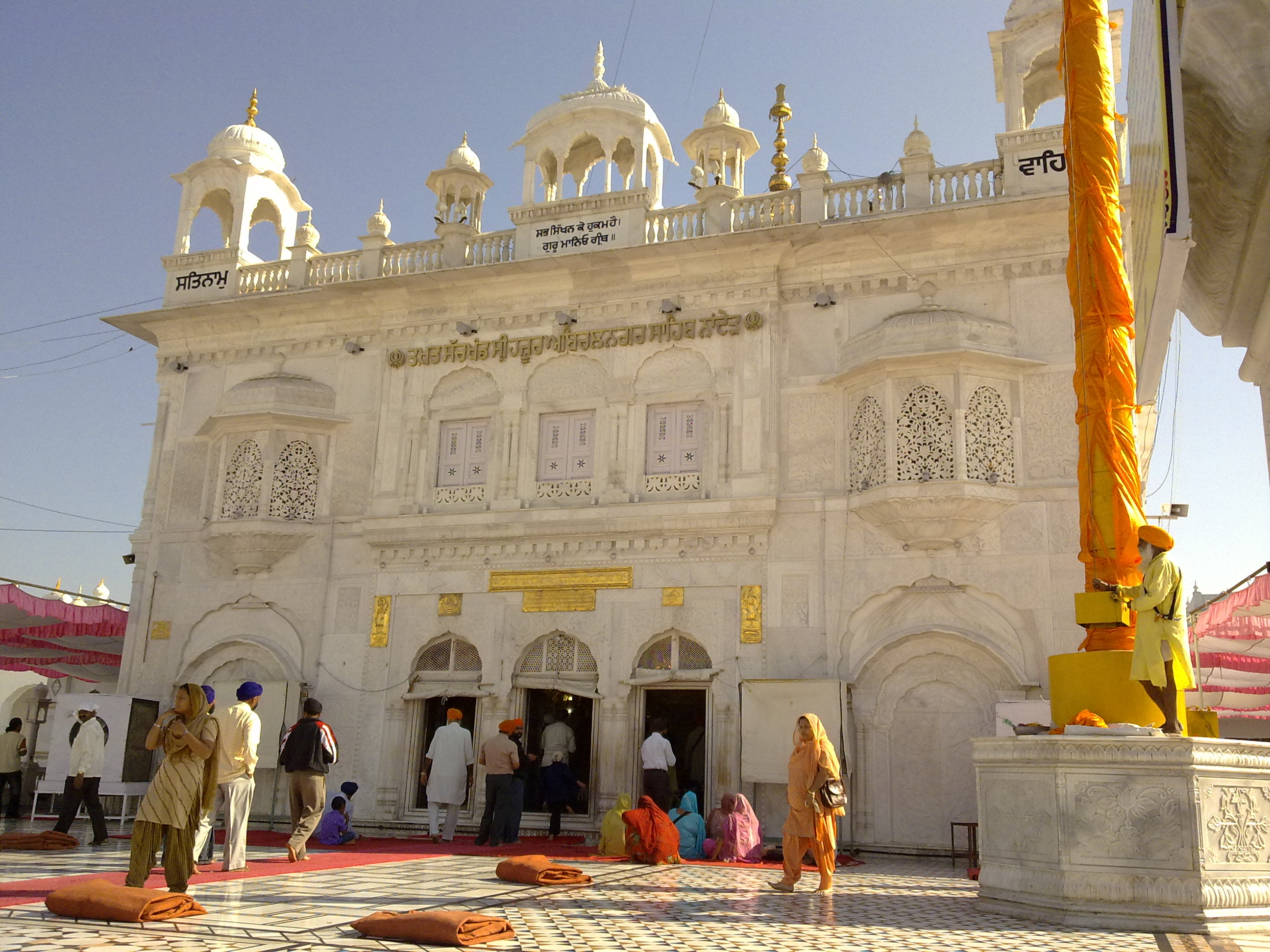 View of the Gurudwara Hazur Sahib